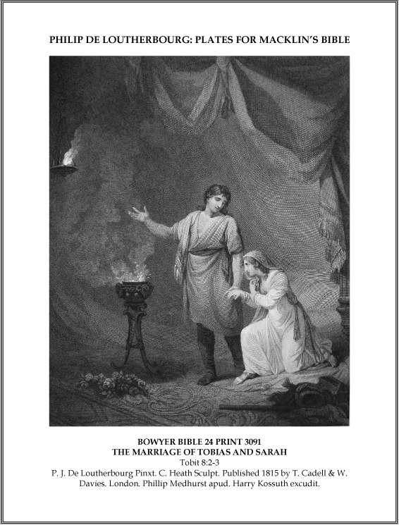 An engraved plate in the Macklin Bible (Cadell & Davies edition of the Apocrypha) after a specially-commissioned painting by Philippe De Loutherbourg. Photographed from the Bowyer bible, Bolton, England. 24.3091. The Marriage of Tobias. Tobias standing in a tent before a fire, holding the hand of Sarah kneeling at right and gesturing towards oil lamp hanging at left (Tobit 8:2-3). 1815. Inscriptions: Lettered below image with title, text reference, production detail: "P. J. De Loutherbourg Pinxt.", "C. Heath Sculpt." and publication line: "London, Published Novr. 1st. 1815, by T. Cadell & W. Davies Strand". Print made by Charles Heath. Dimensions: Height: 480 millimetres; width: 378 millimetres.